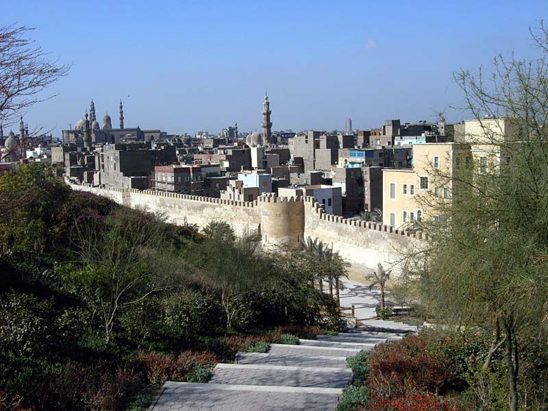 Al-Azhar Park, Cairo, View to the 12th century ayyubid city wall; Egypt